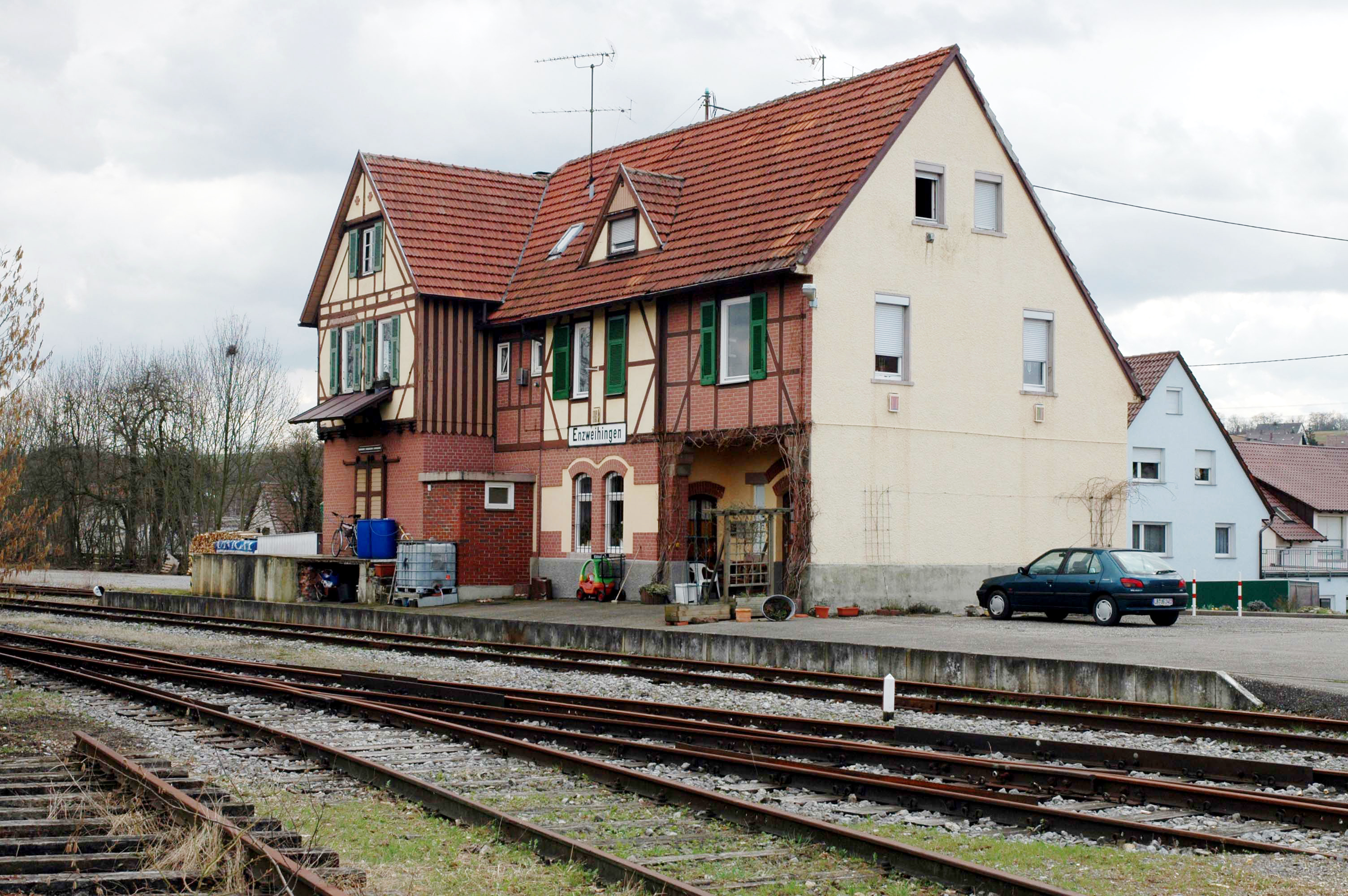 abandoned station of Enzweihingen